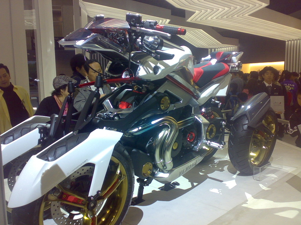 A photo of the Yamaha Tesseract taken by Hiroshi Miyazaki at the 2007 Tokyo Motor Show.